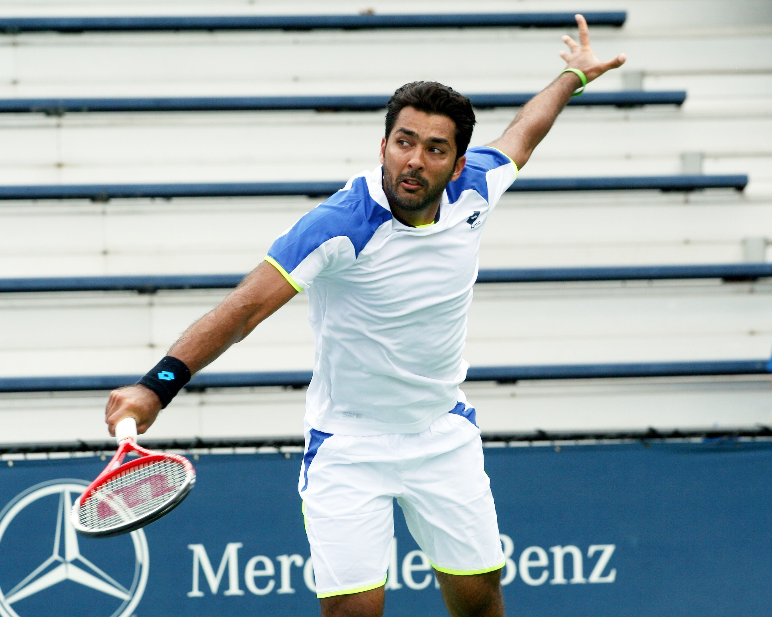 Saturday, August 31, 2013